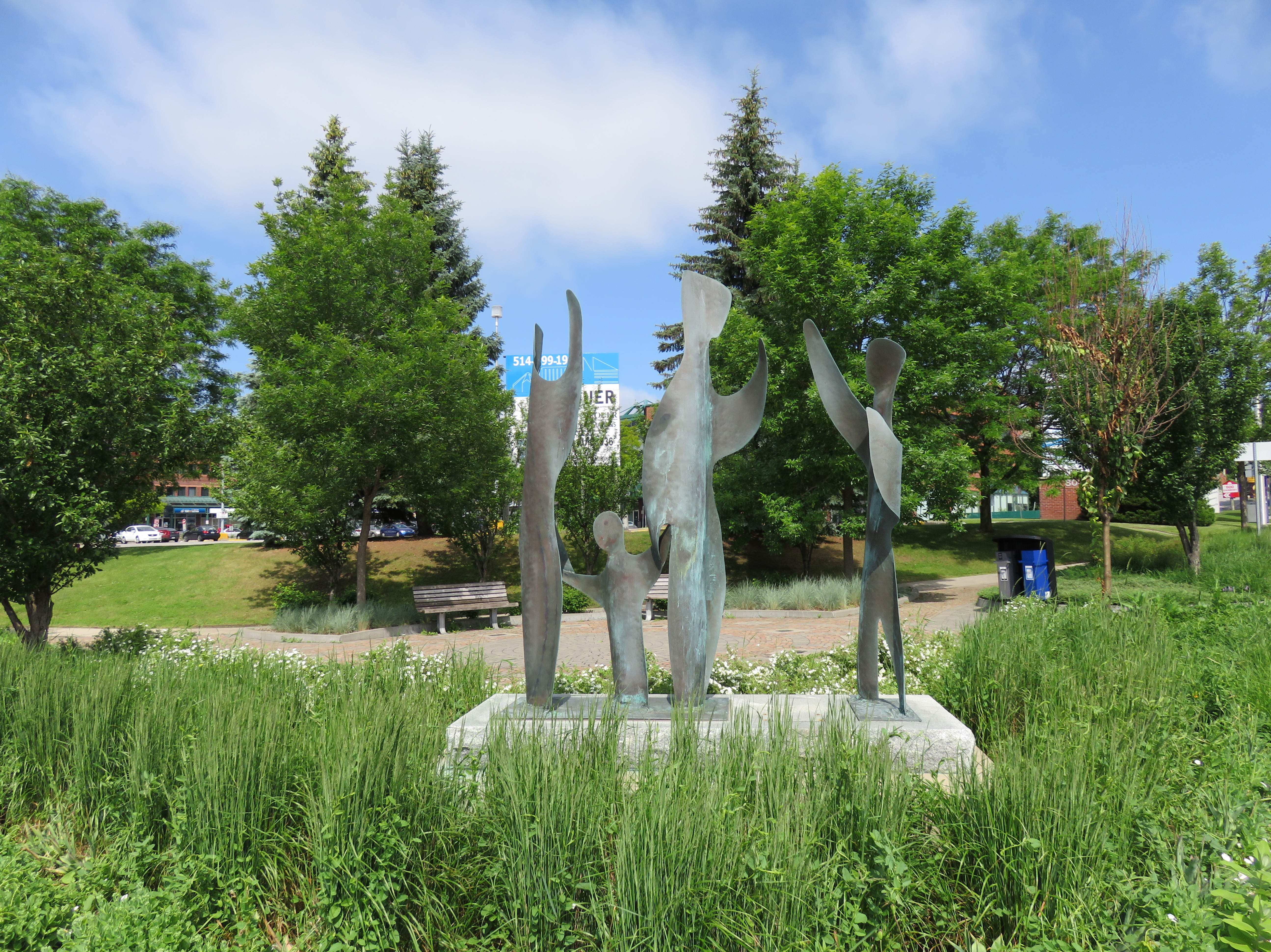 "Les visiteurs", sculpture of Gaëtan Therrien (2004), located at the northwestern corner of Chomedey and Notre-Dame boulevards, Laval, Quebec,Canada.